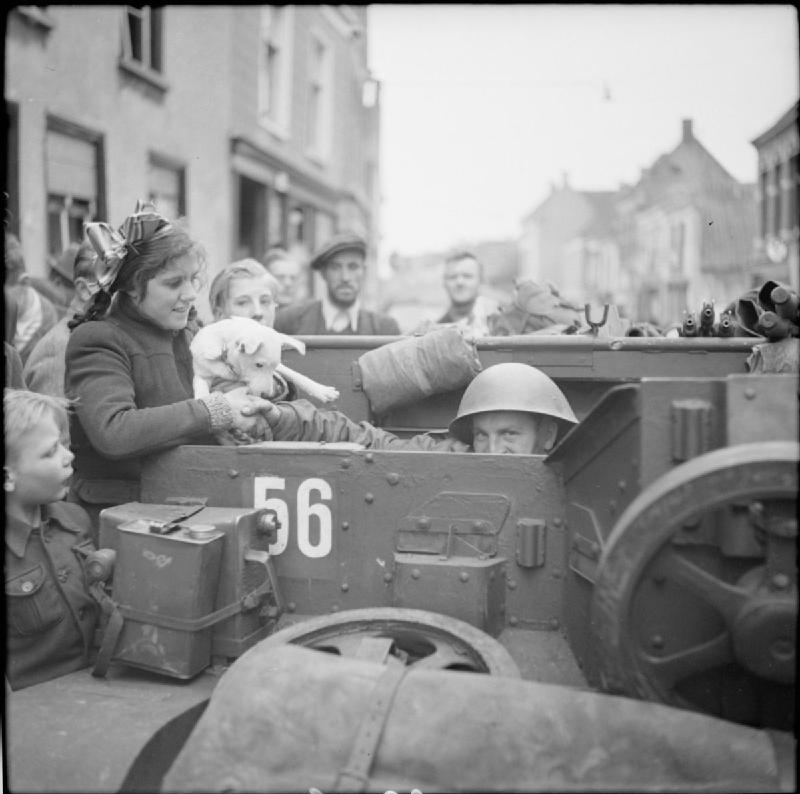 The British Army in North-west Europe 1944-45 The driver of a Universal carrier, Private H Smith of 'B' Company, 1/4 King's Own Yorkshire Light Infantry, makes friends with Dutch civilians - and a small dog - during the liberation of Roosendaal, 30 October 1944.